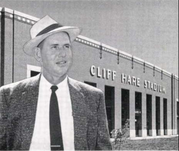 Photograph of Auburn University athletic director G. W. Beard in front of Cliff Hare Stadium